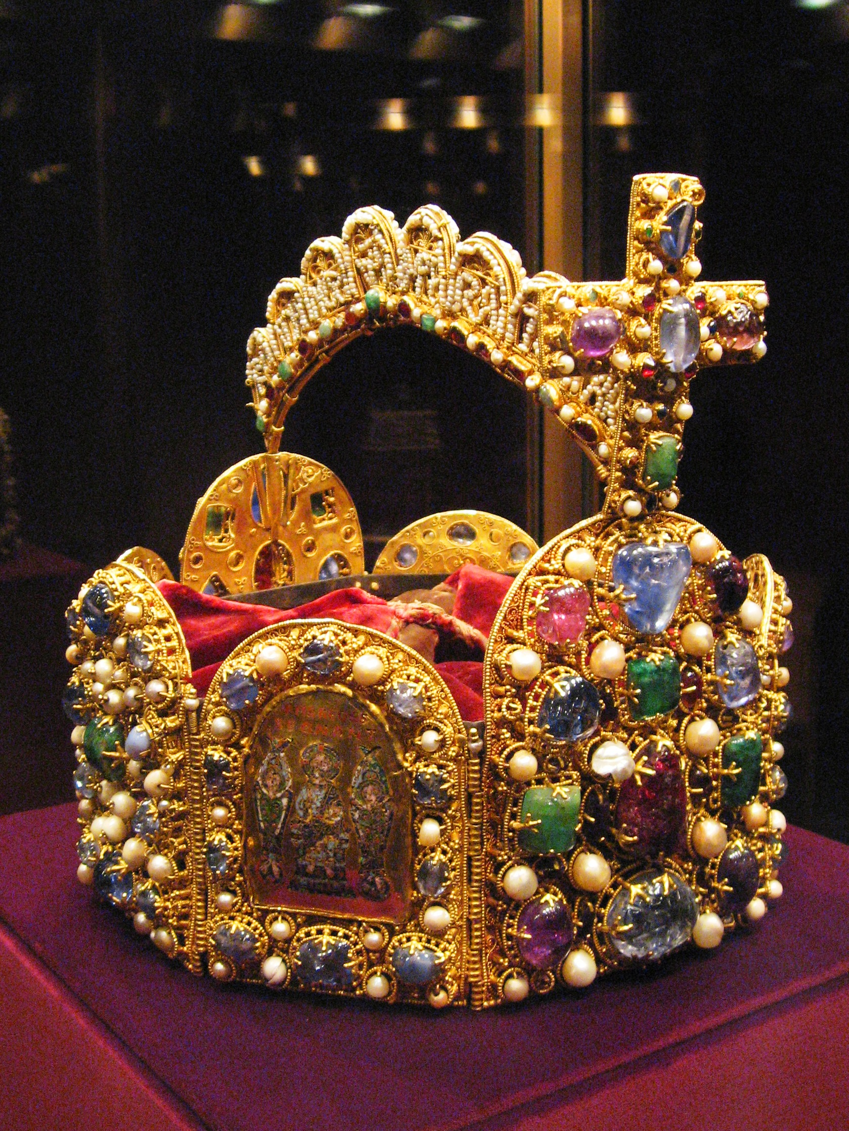 The Imperial Crown Western Germany 2nd half of the 10th century The cross is an addition from the early 11th century; the arch dates from the reign of Emperor Conrad II (ruled 1024-1039); the red velvet cap is from the 18th century. Gold, cloisonné enamel, precious stones, pearls Brow plate: H 14.9 cm, W 11.2 cm; cross: H 9.9 cm SK Inv. No. XIII 1